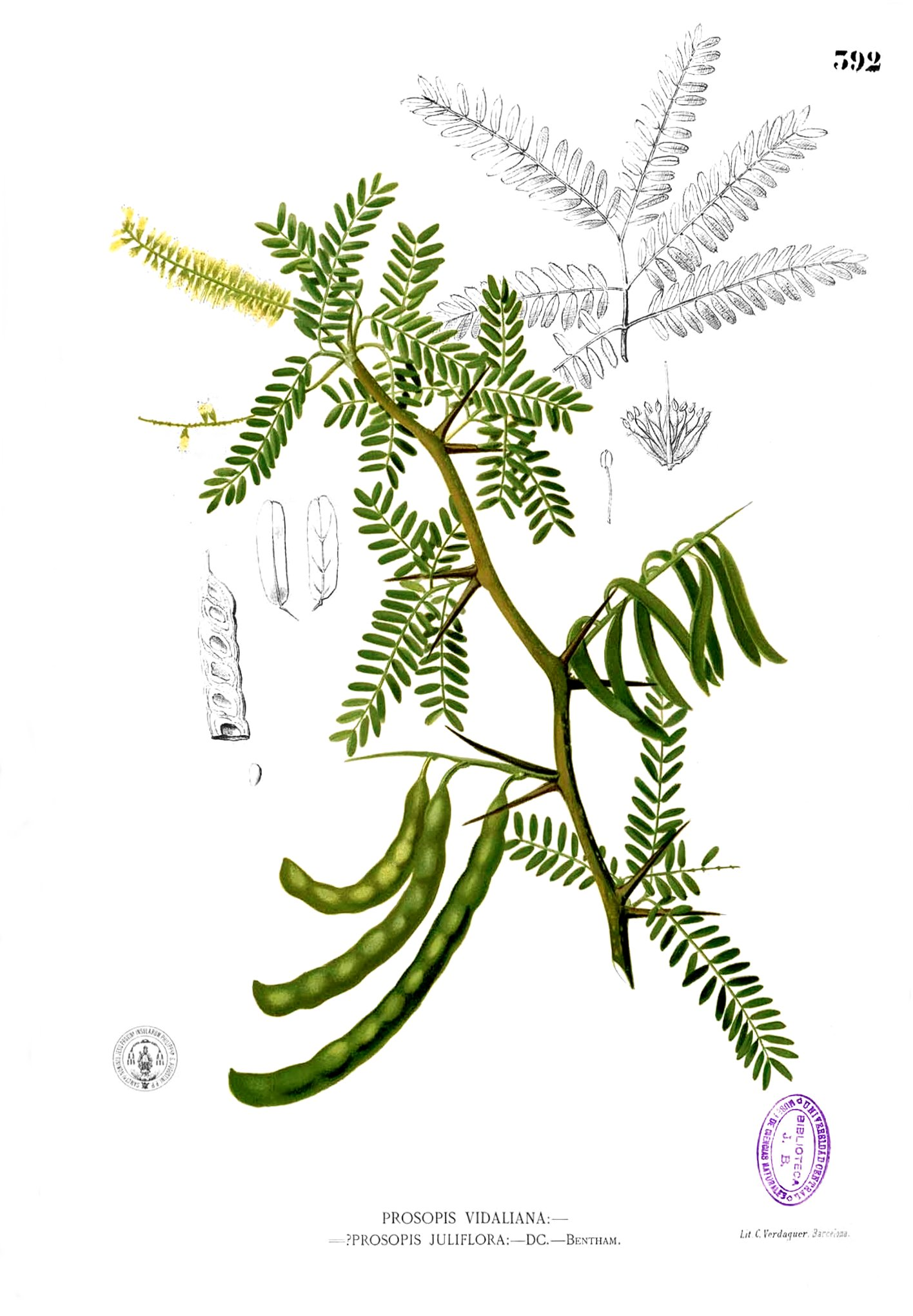 Plate from book